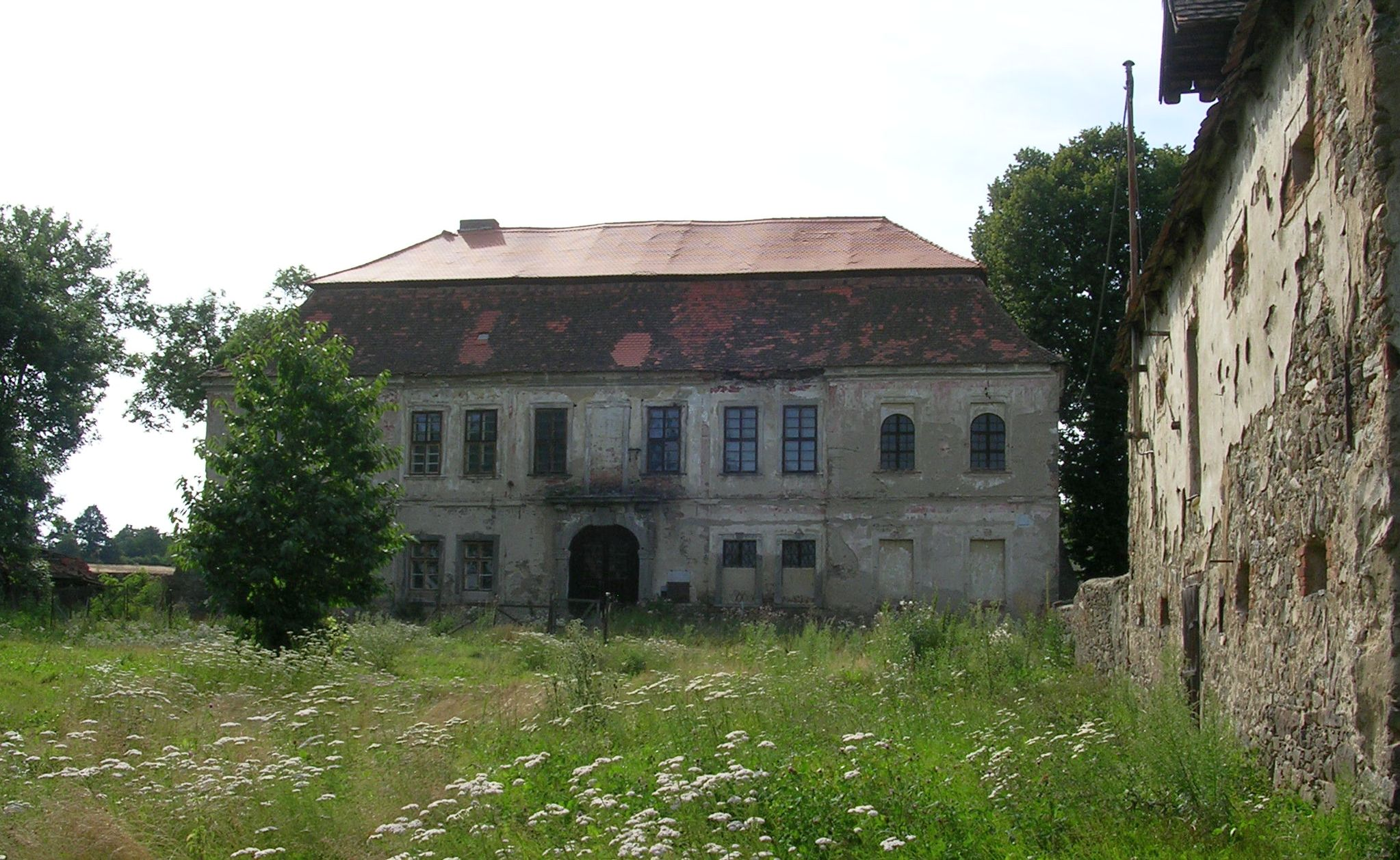 Příčovy, Příbram District, Central Bohemian Region, the Czech Republic. A castle. - Google Maps - Google Earth